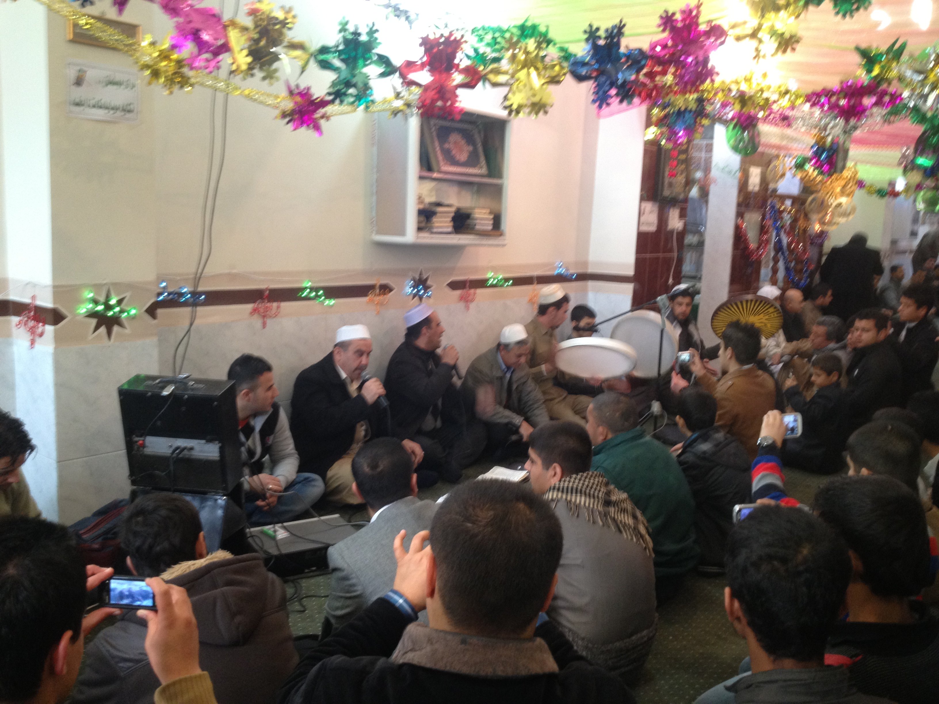 A_group_of_Mawlid_who_read_islamic_song Kurdî: کۆمەڵێک لە مەولوود خوێنان لە شاری هەولێر ، هەرێمی کوردستان مزگەوتی شێخ اللە , Komellêk le mewlûd xwênan le şarî hewlêr , herêmî kurdistan mizgewtî şêx allah